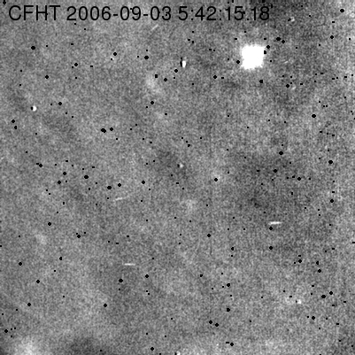 SMART-1 impact flash